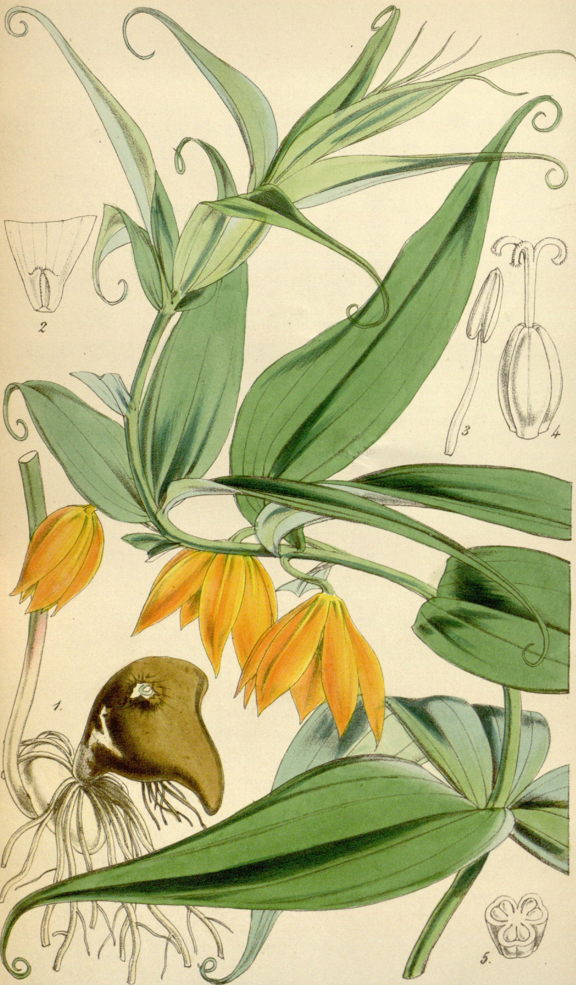 Gloriosa modesta